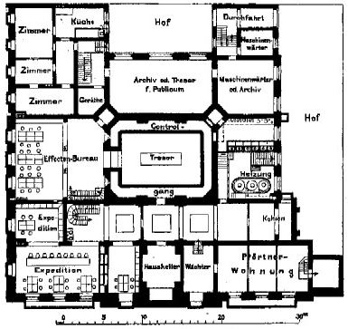 Building plan of the Dresdner Bank building at Behrenstraße in Berlin-Mitte, basement; plan by architect Ludwig Heim (1887)